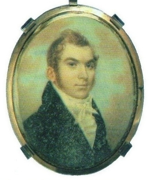 This portrait of Alexander McGillivray, or Hopothle Mico (1750–1793), is contained in a silver locket.